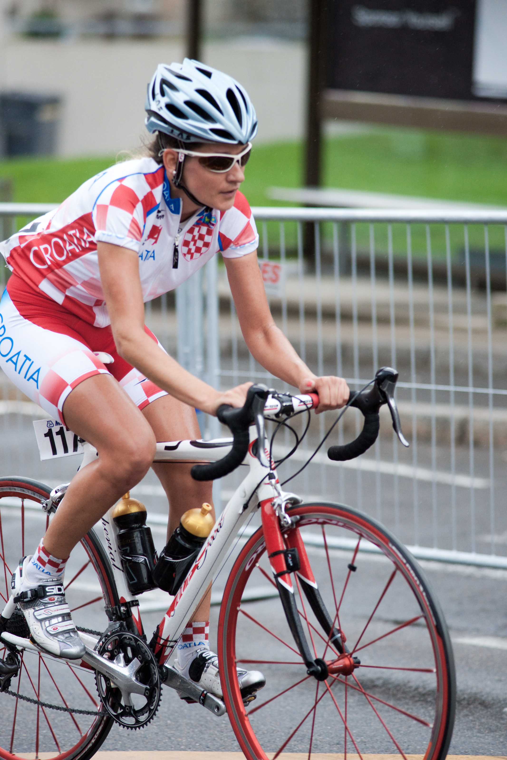 Marina Boduljak during the 2009 Road World Championships in Mendrisio, Switzerland.